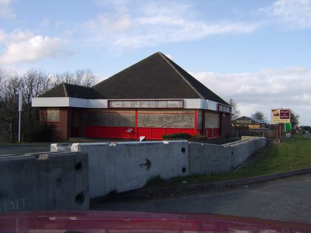 Disused Little Chef. Now a boarded up building sitting on the A49